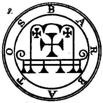 The seal of Barbatos